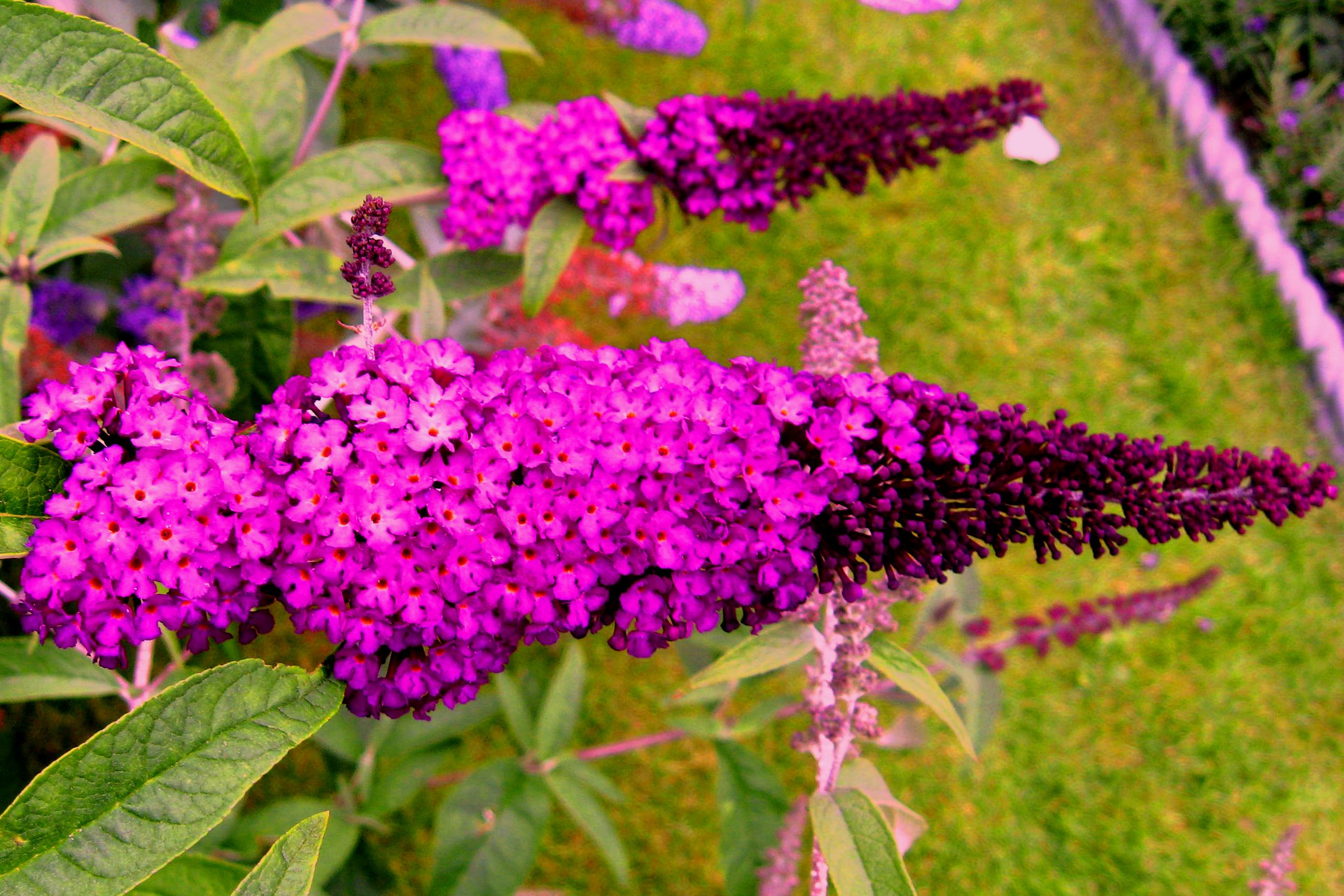 Photo of the panicles of Buddleja davidii cultivar 'Royal Red' taken at Portchester, England.